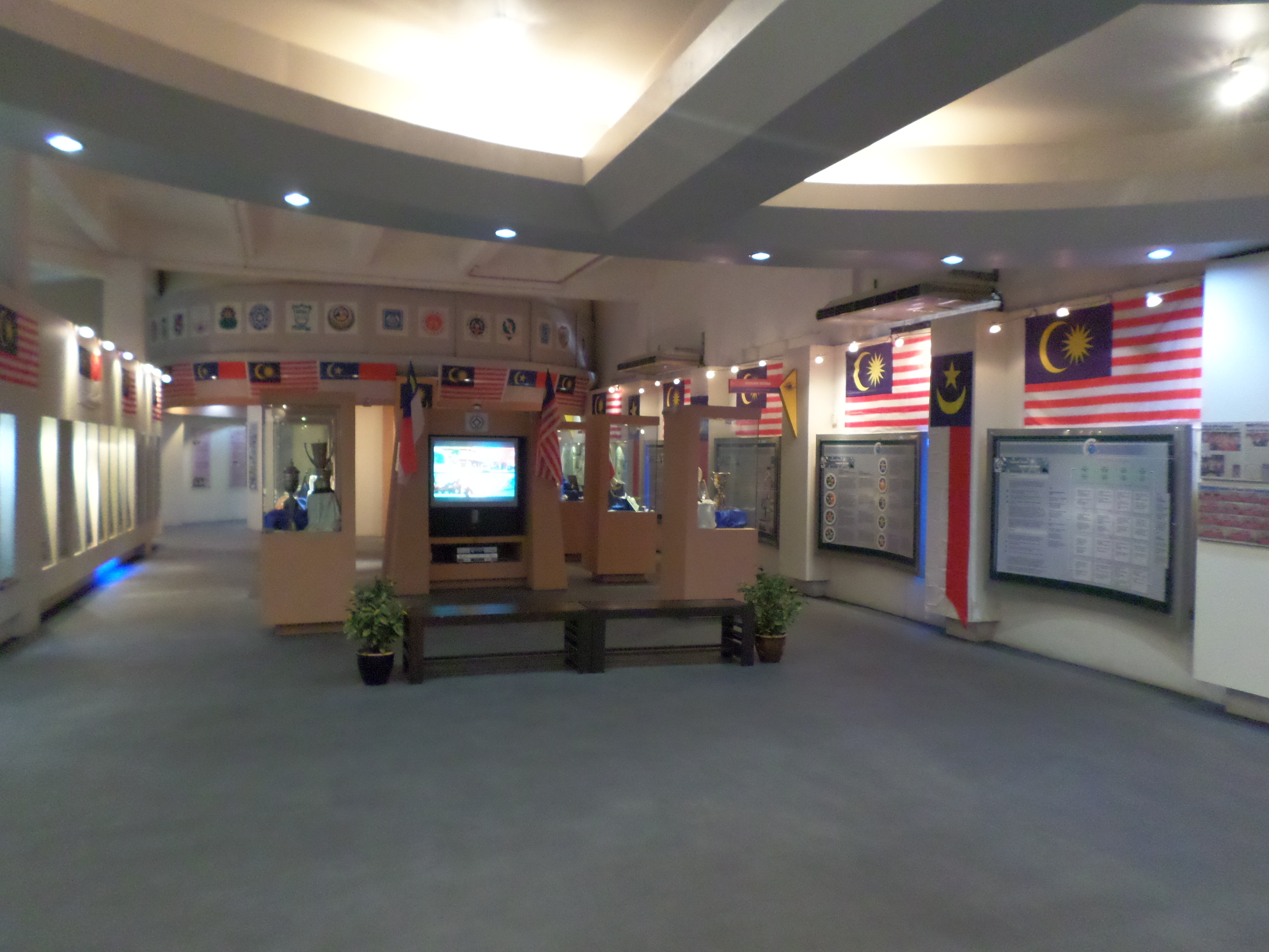 Malaysia Youth Museum, Malacca, MalaysiaBahasa Melayu: Muzium Belia Malaysia, Melaka, Malaysia